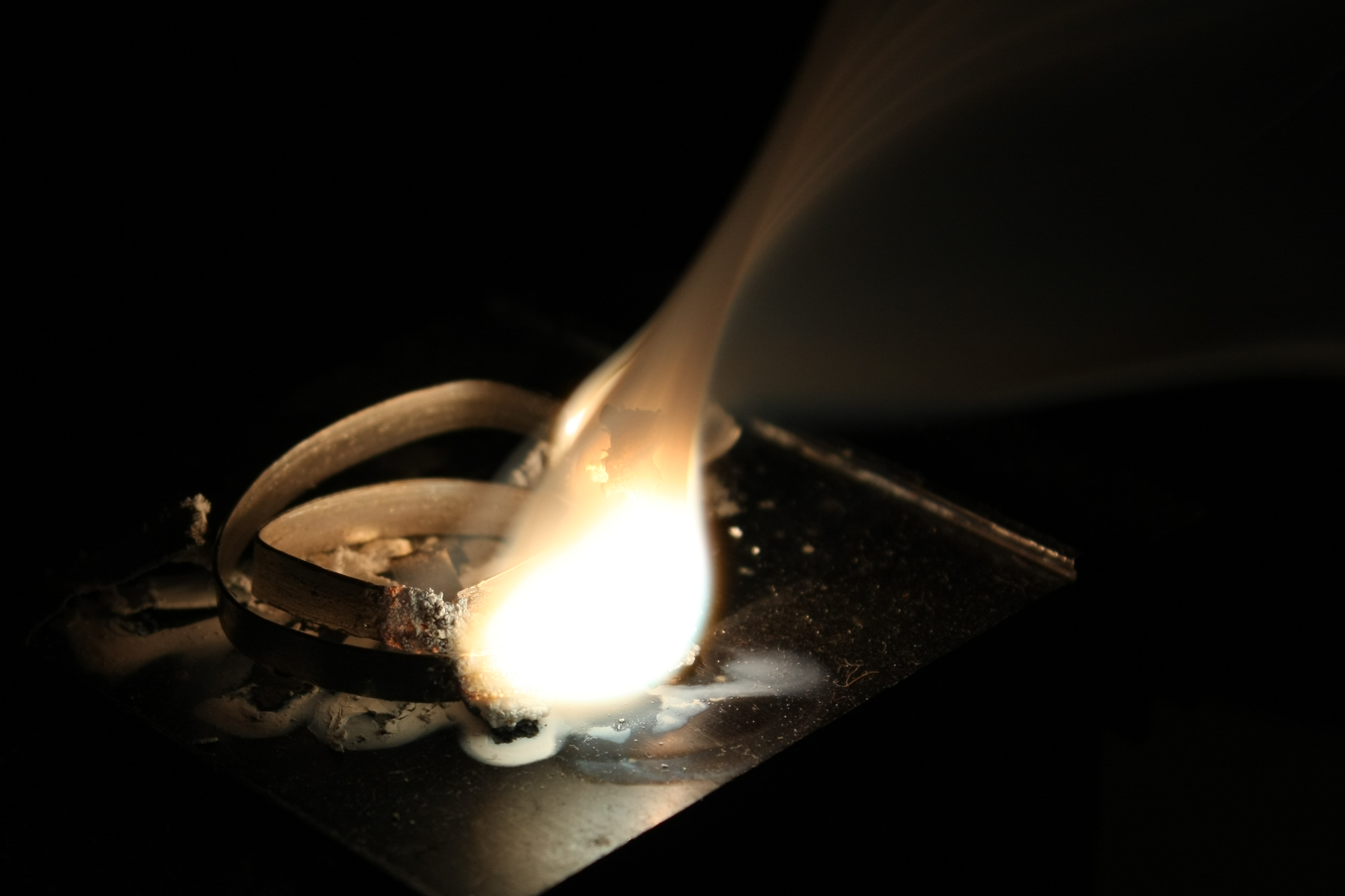 Photograph of a burning magnesium ribbon with very short exposure to obtain oxidation detail.